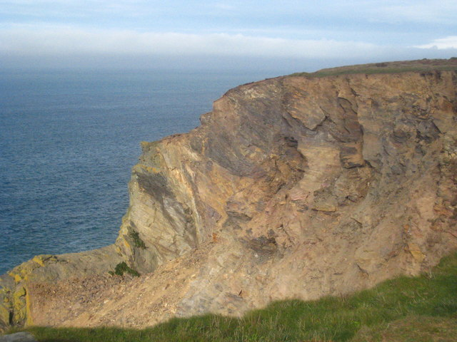 Detail of landslip at Hudder Cove